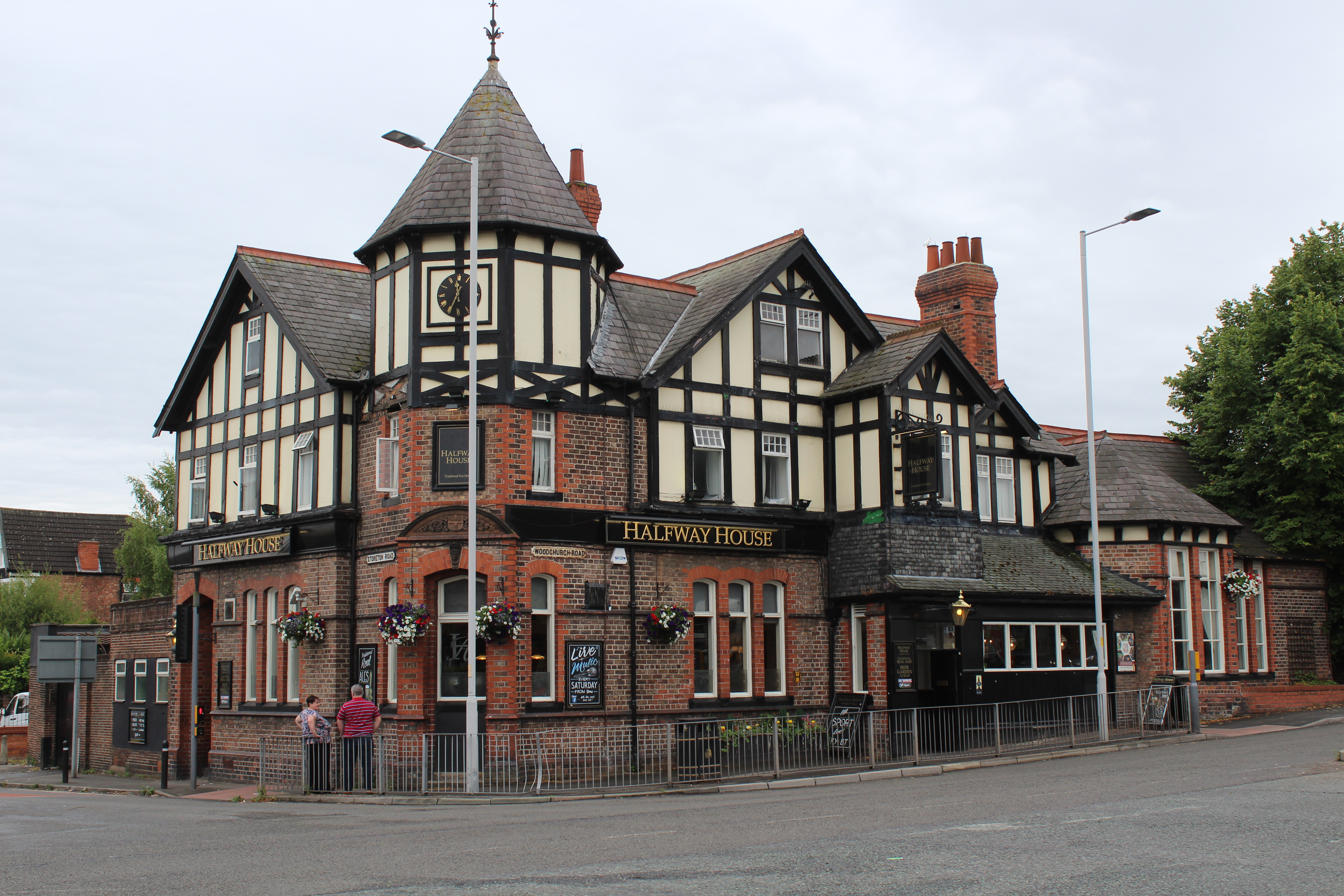 View from opposite corner of Storeton Road and Woodchurch Road.